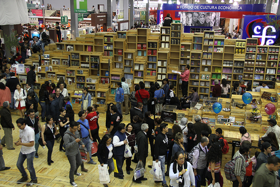 Feria Internacional del Libro en Guadalajara 2013